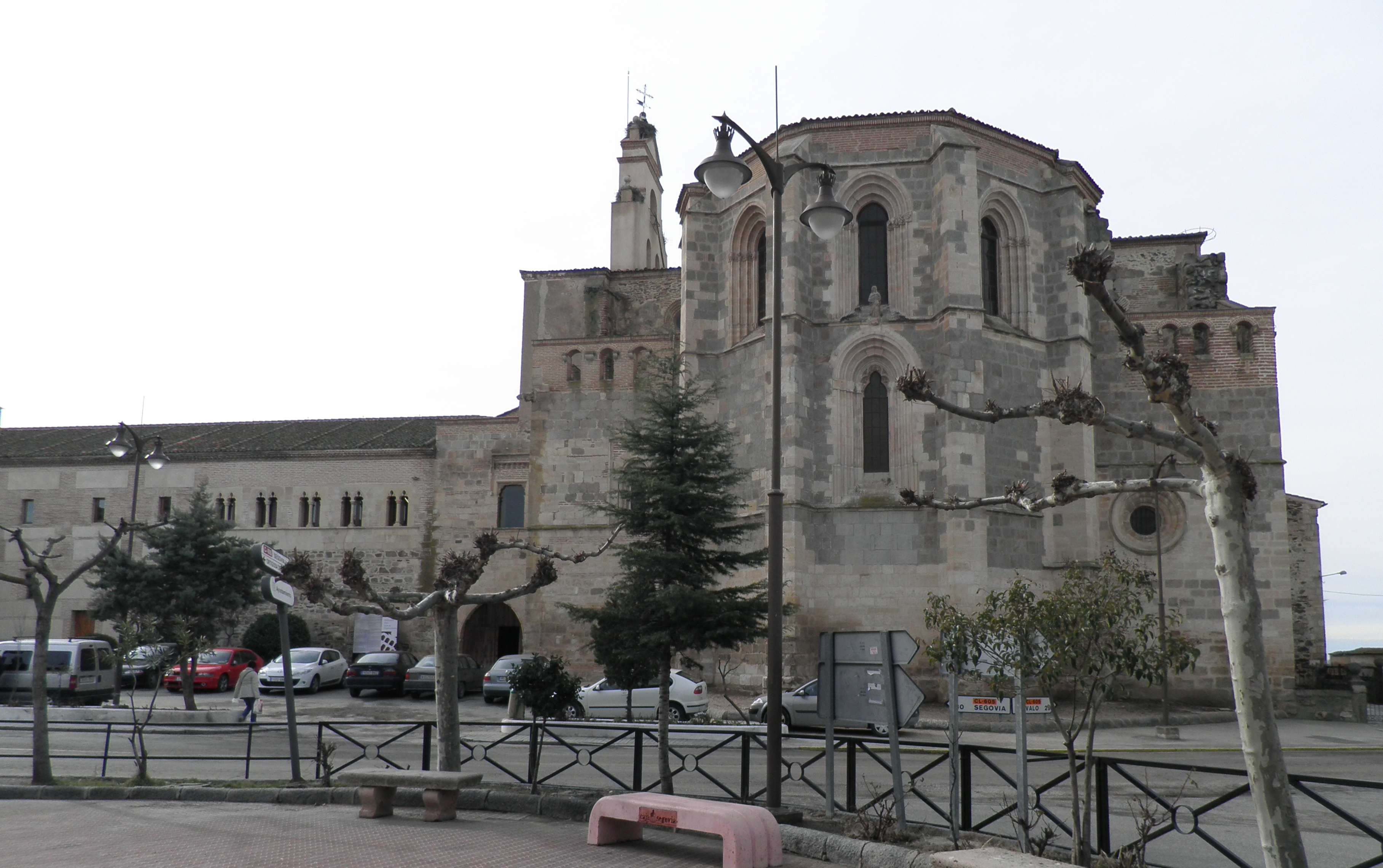 Eastern facade of the church of Santa María la Real de Nieva, Segovia province, Spain.